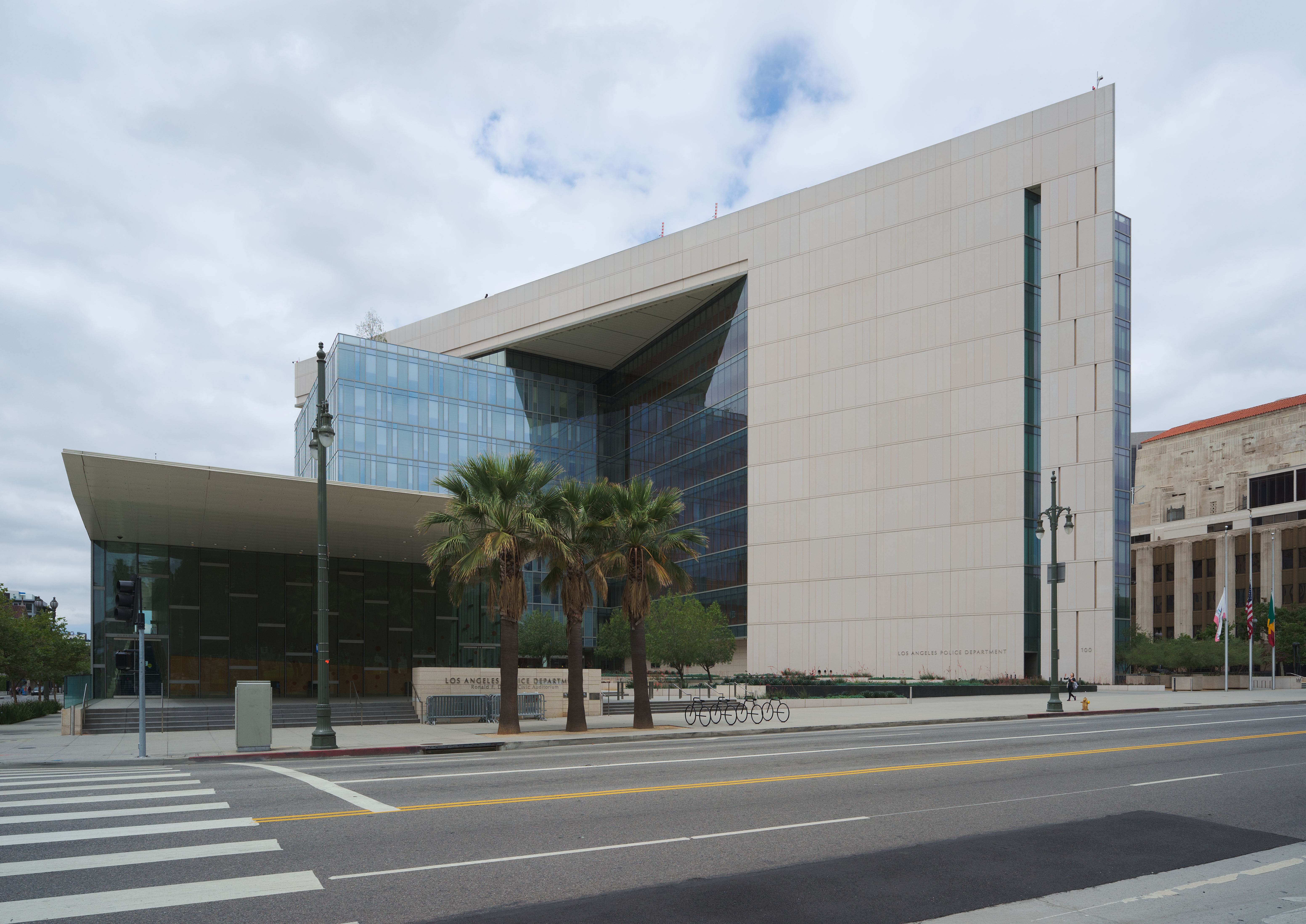 New Parker Center is the headquarters of the Los Angeles Police Department.